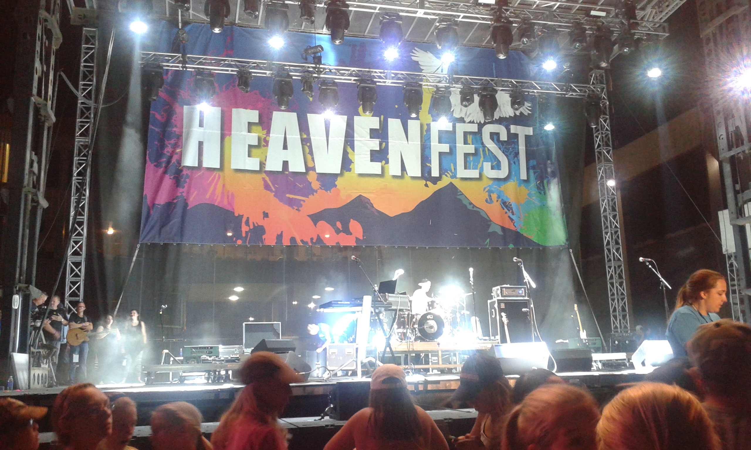 Heaven Fest 2015 CCU main stage banner